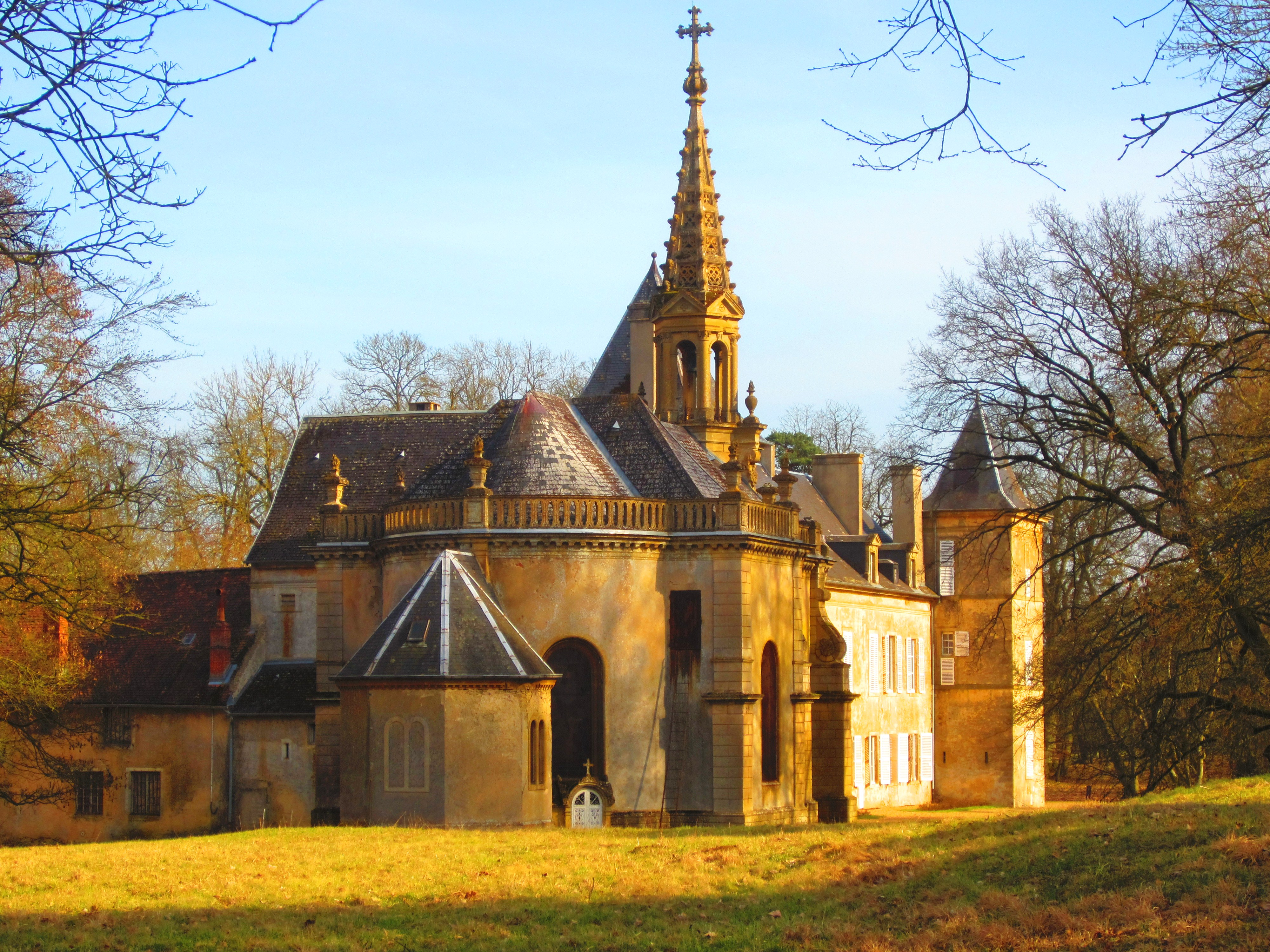 Preich chapel